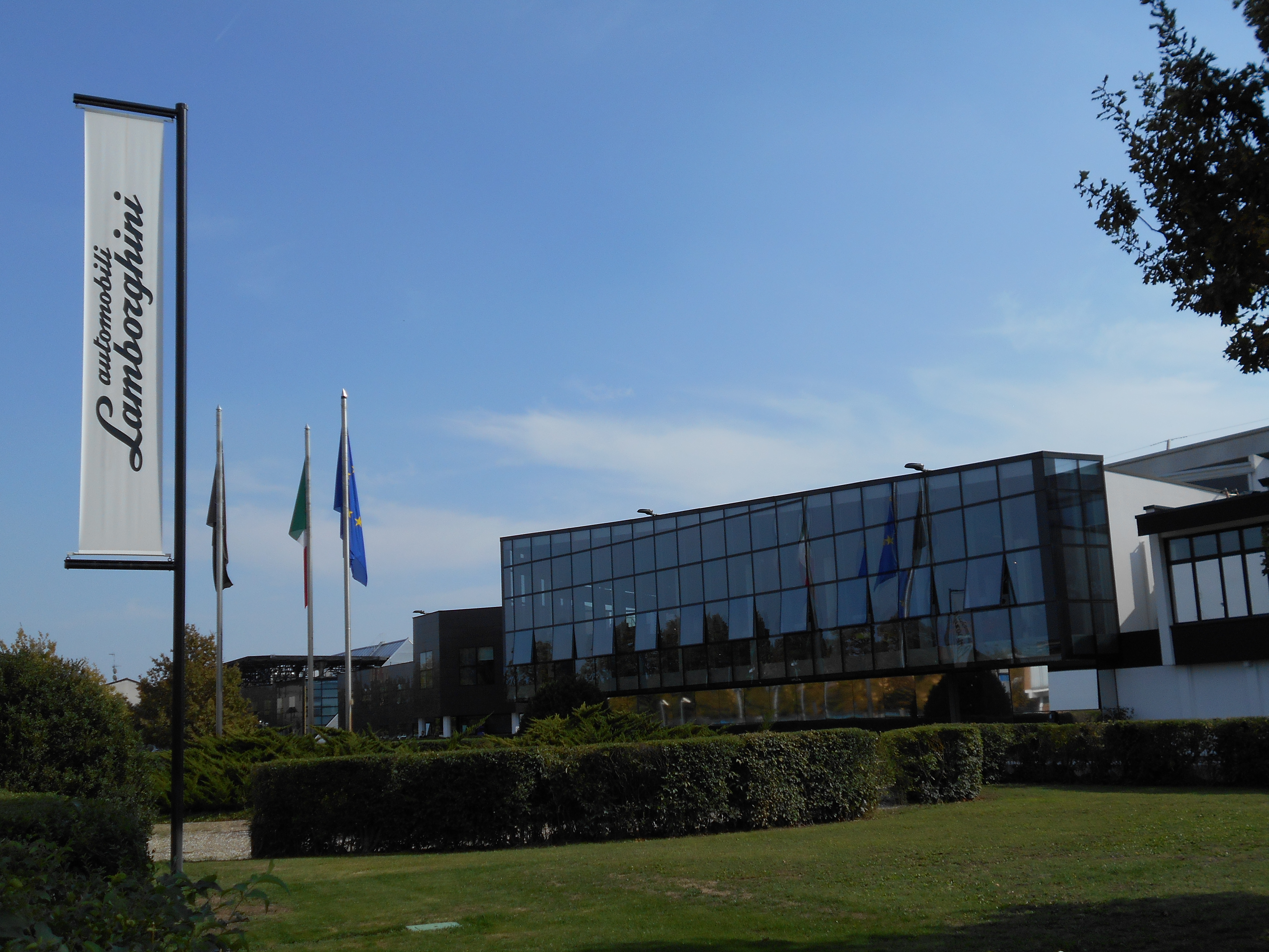 Lamborghini factory